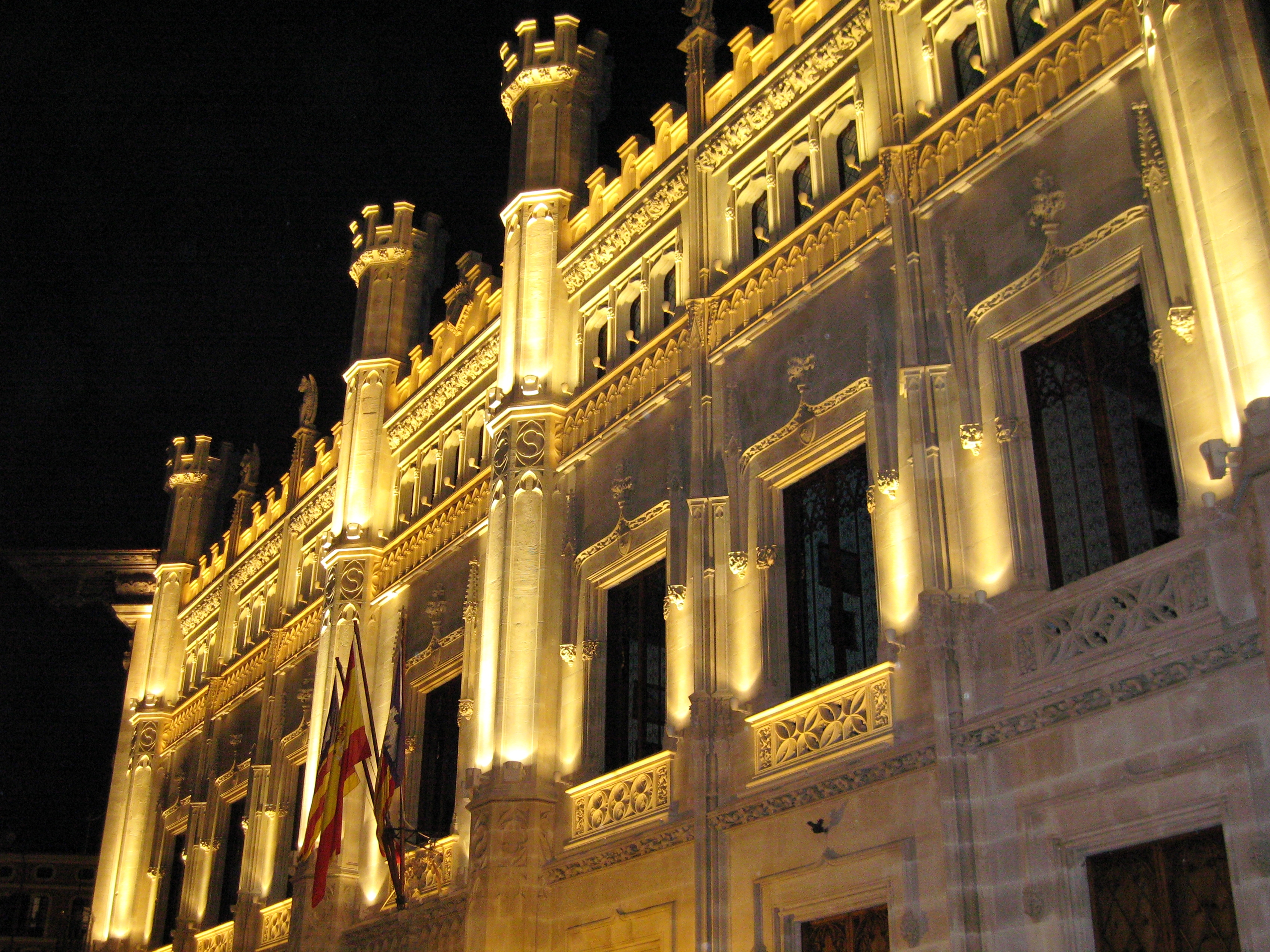 Building of the Consell Insular, Palma de Mallorca, Mallorca, Spain